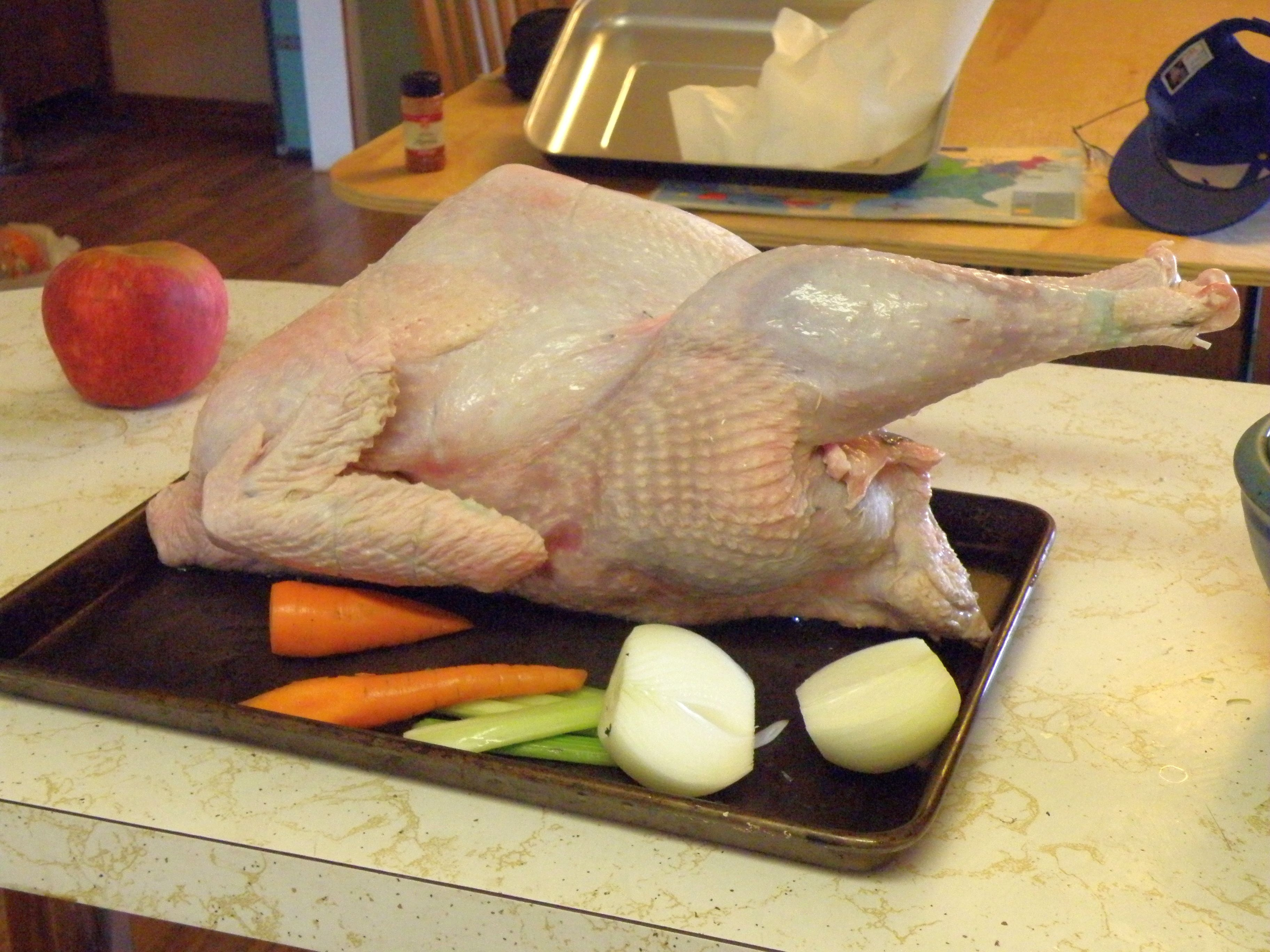 A whole heritage breed turkey prepared for roasting.